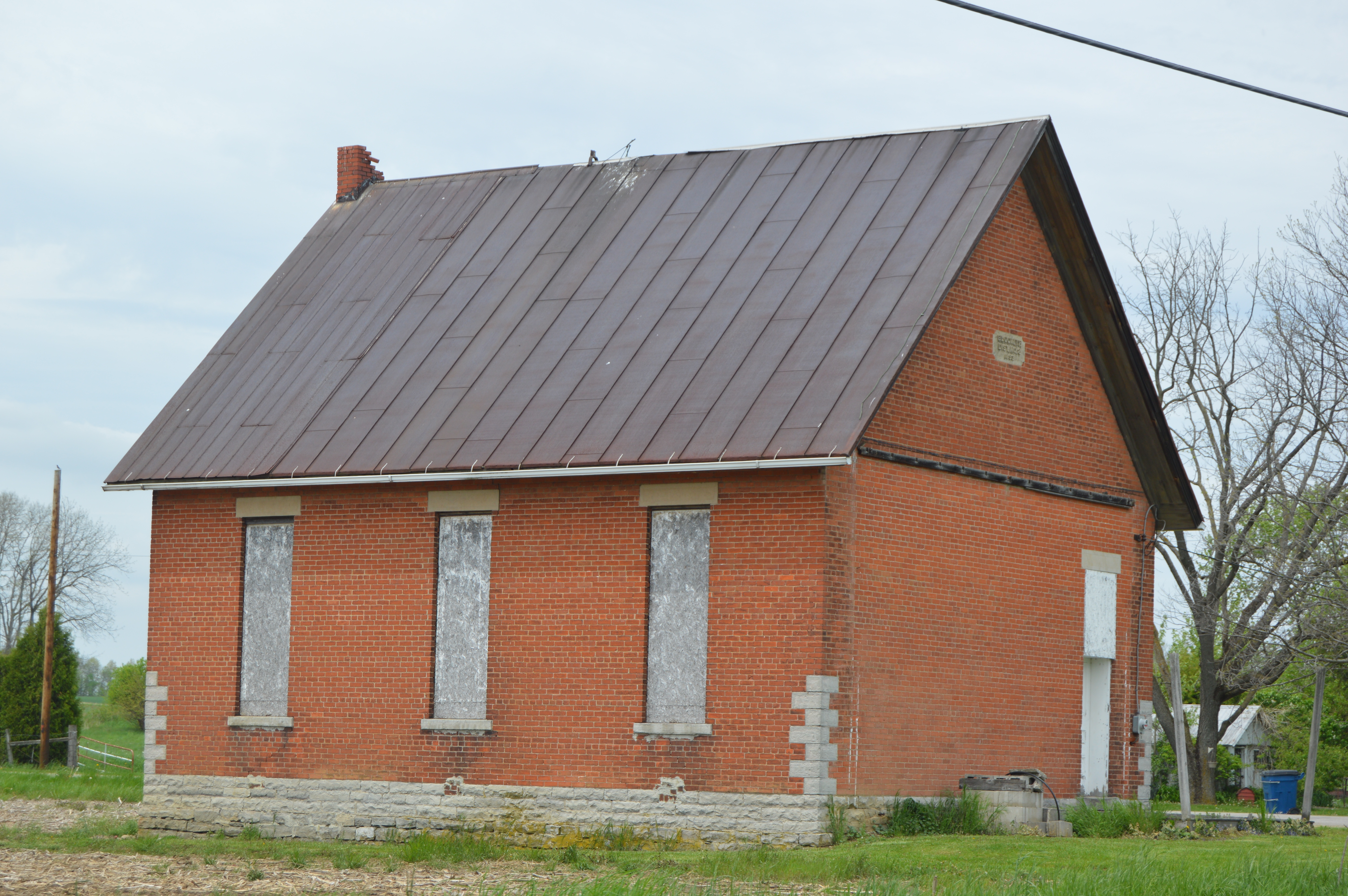 Front and southern side of the former Bloom Township District #2 School, located along State Route 19 north of Bloomville in Bloom Township, Seneca County, Ohio, United States. It was built in 1893.